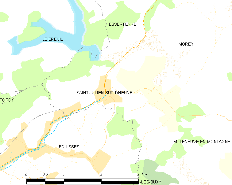 Map of French municipality